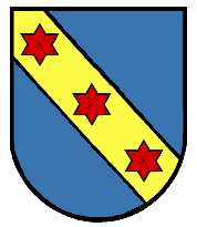 Coat of arms of Brenz_an_der_Brenz. in Sontheim an der Brenz